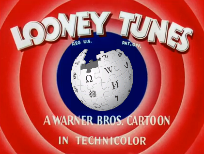 Looney Tunes public domain card plus Wikimedia puzzle globe